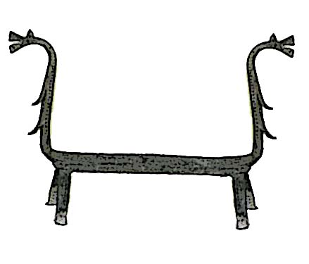 Fire_supporter